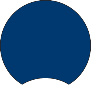 This is an image of the profile of a Swedish Cope Log